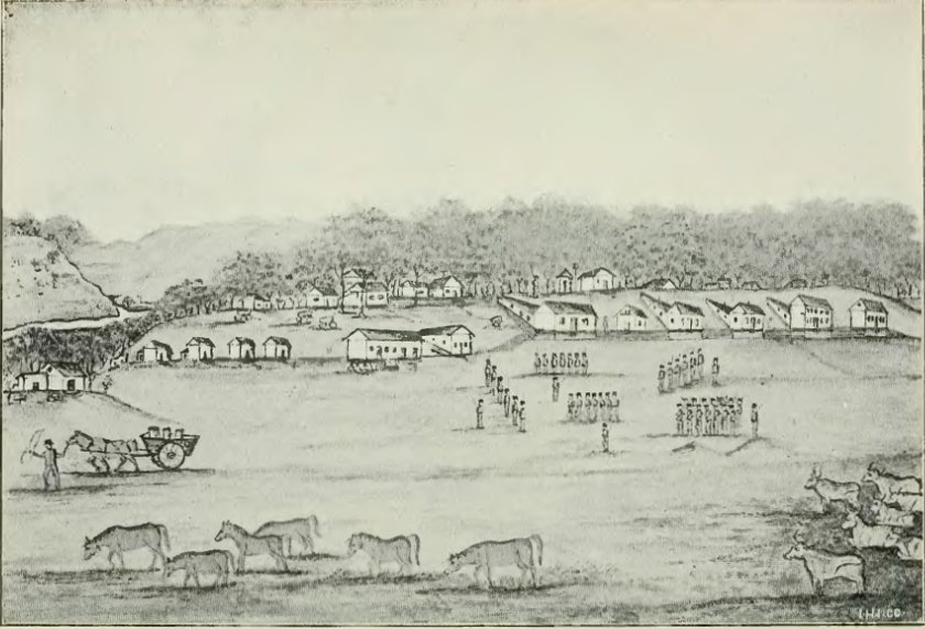 Illustration in History of Iowa From the Earliest Times to the Beginning of the Twentieth Century